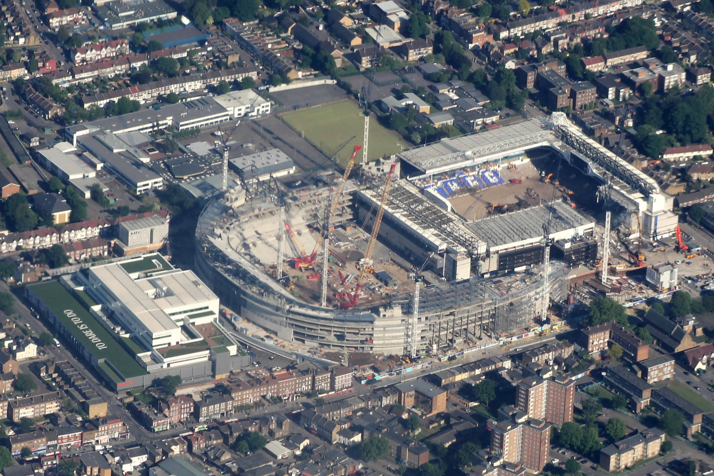 Aerial view of White Hart Lane, partially demolished, with new stadium under construction next to it. Image trimmed